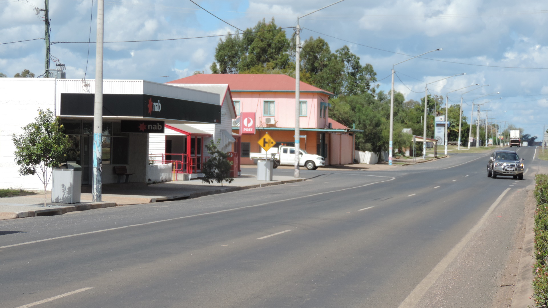 Peak Downs Street (the main street of Capella) is part of the Gregory Highway, 2016